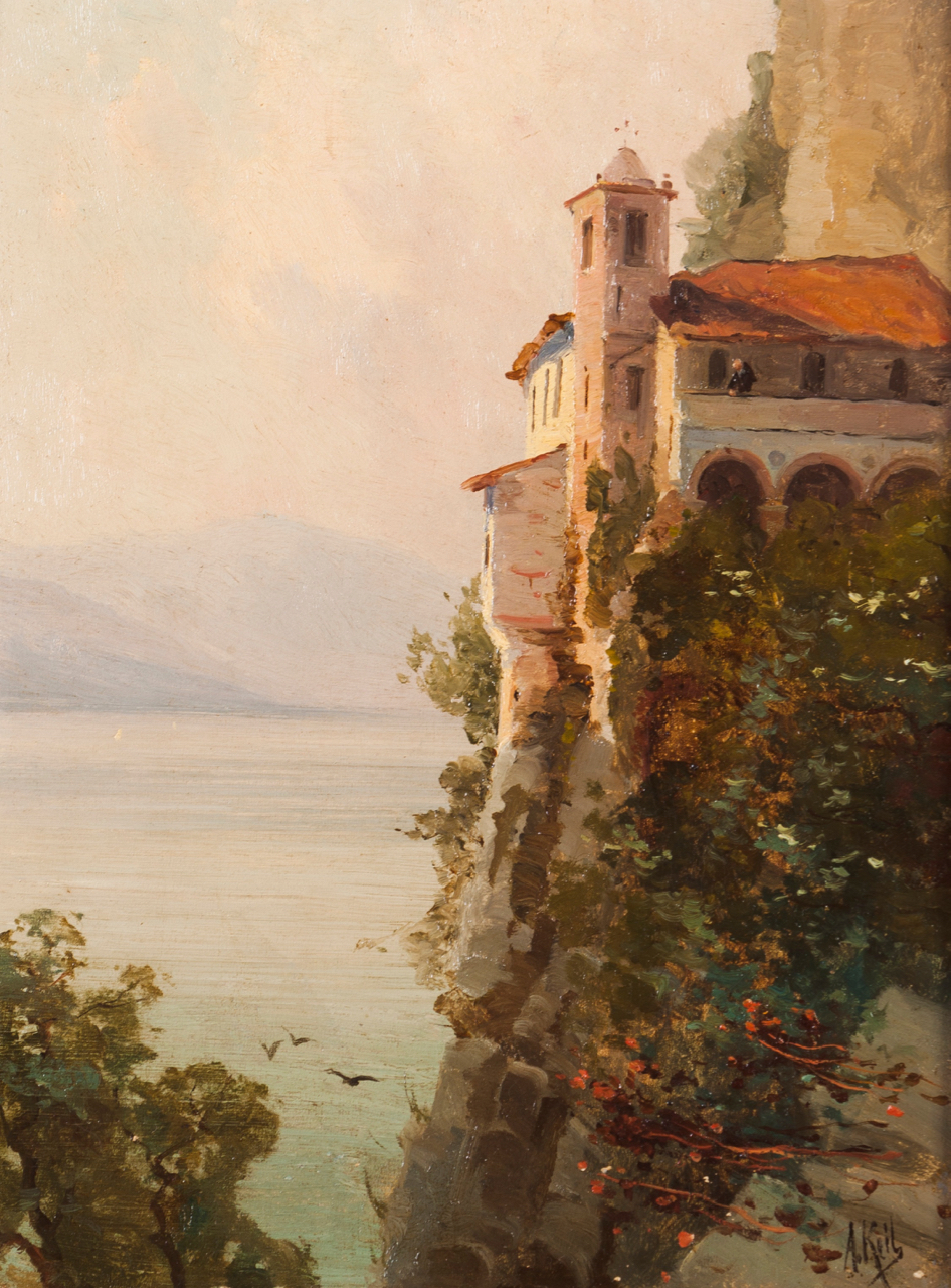 "Couvent de Saint Catherine au Lac Majeur" (Italy, 1888), by Alfredo Keil.